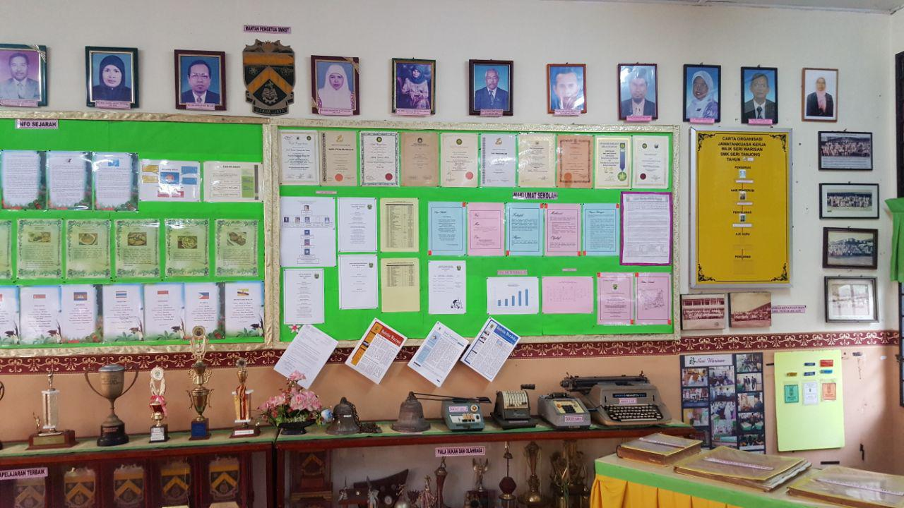 khazanah lama